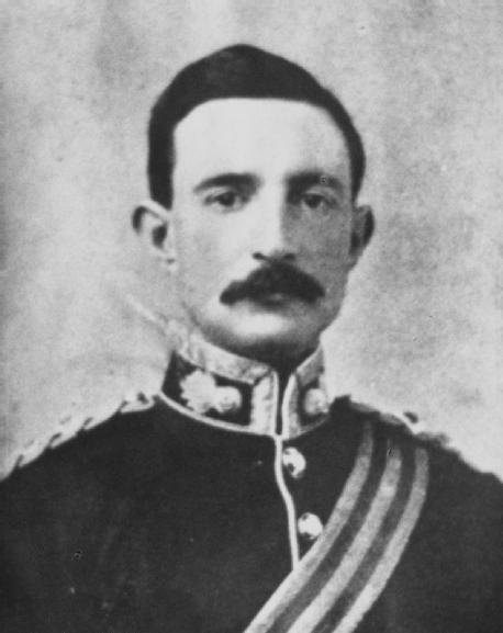 Captain Charles Fitzclarence, The Royal Fusiliers, awarded the Victoria Cross, near Mafeking, South Africa, 14 and 27 October, and 26 December 1899.